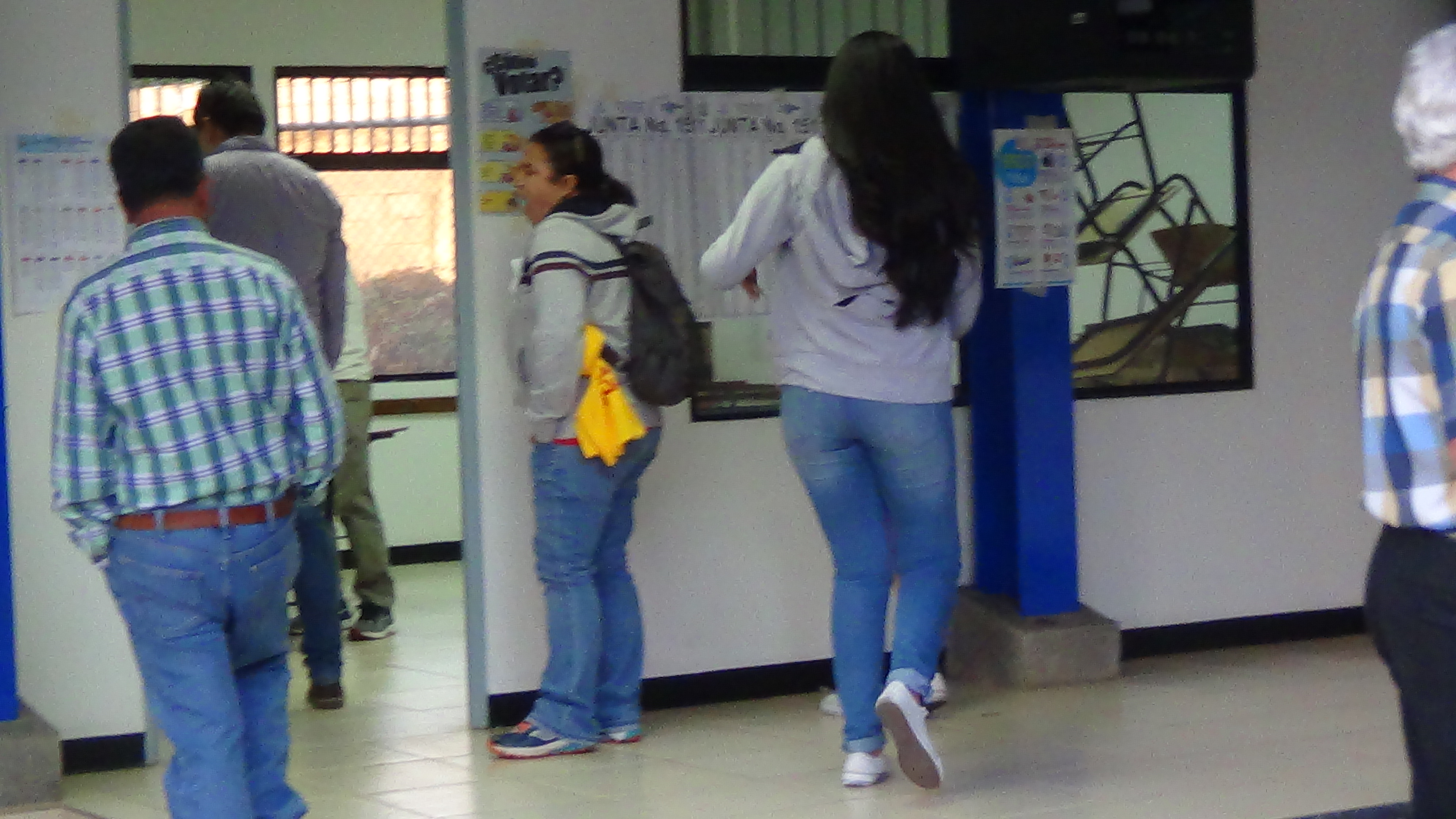 Votantes haciendo fila en elecciones de Costa Rica de 2018